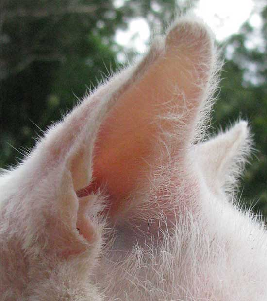 Closeup of a cat's ears. Note the "pockets" at the back.